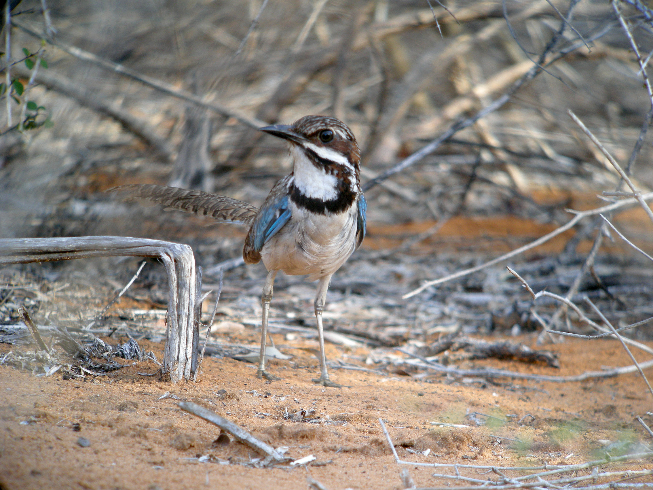 Long-tailed Ground-roller, Mangily, Madagascar Swarowski 80 HD 30 X, Coolpix P5100 (Adapter DCB)